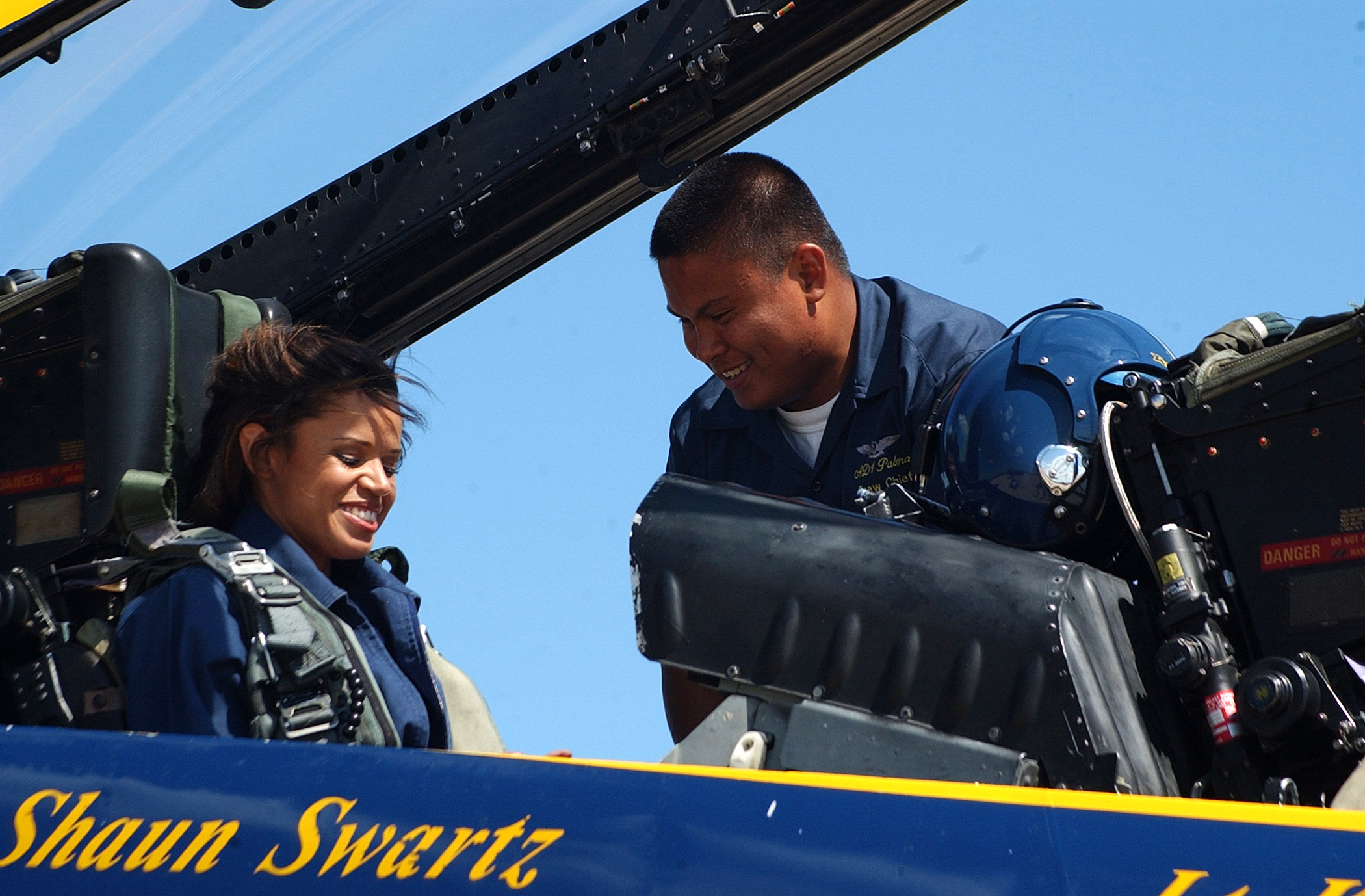 Atlantic City, N.J. (Aug. 21, 2006) - Aviation Machinist's Mate 1st Class Patrick Palma, a crew chief for the Blue Angels aerial demonstration team, helps local CBS TV reporter Anne-Marie Green prepare for her orientation flight with the Blue Angels. The Blue Angels are appearing at the Atlantic City air show, "Thunder Over the Boardwalk," along with the Air Force Thunderbirds aerial demonstration team. The Blue Angels took several local media representatives on a flight before show day, to give them a taste of what the Navy has to offer. U.S. Navy photo by Chief Mass Communication Specialist Monica Hallman (RELEASED)